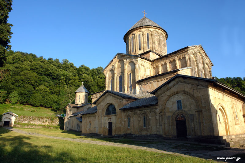 Gelati Monastery